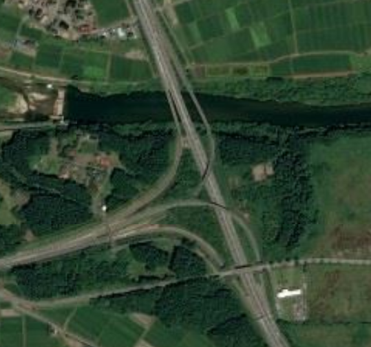 Satellite view